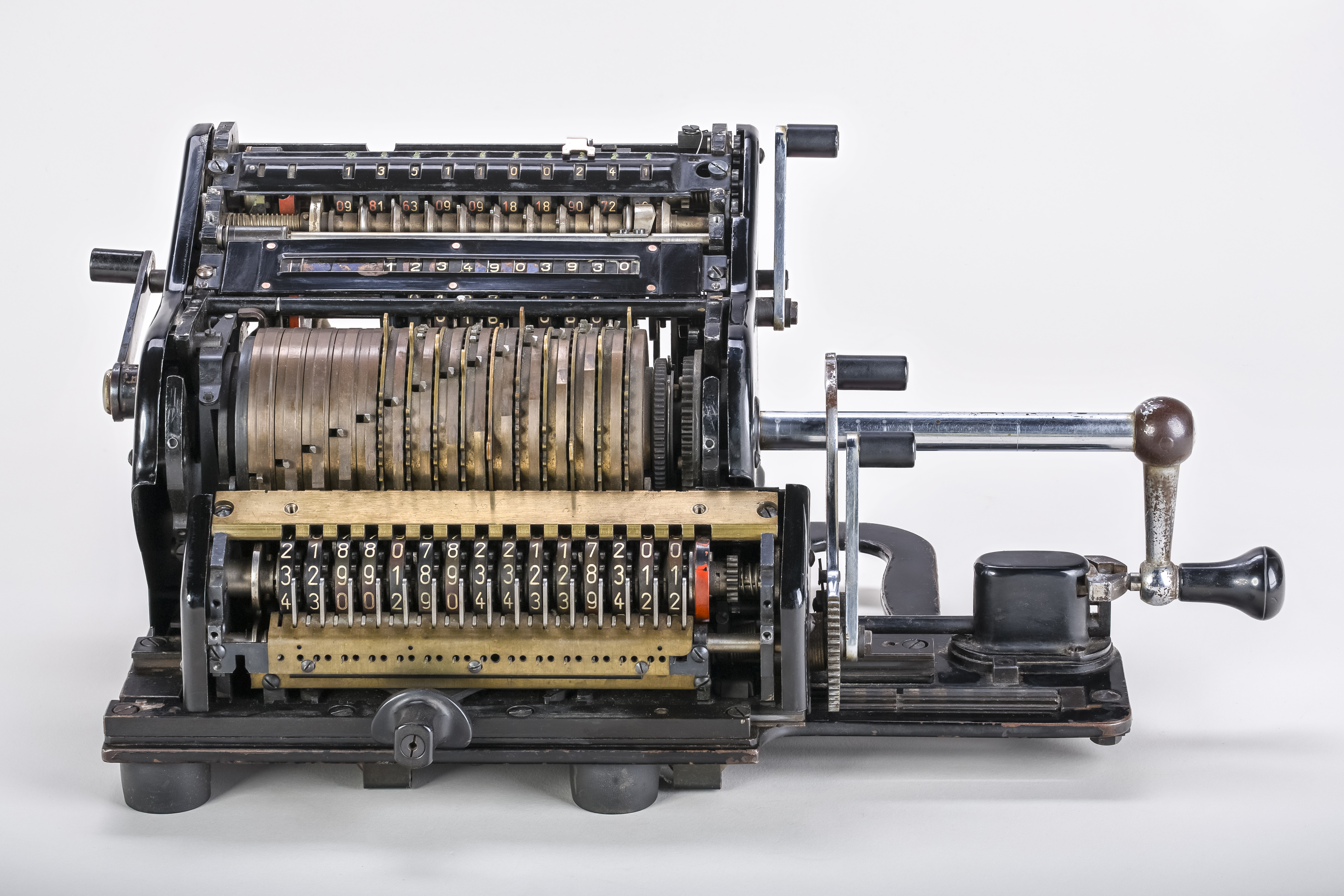 A Brunsviga 15 mechanical calculator with serial number 202550. The shrouds had been removed to reveal the internal mechanic. Produced by Brunsviga-Maschinenwerke Grimme, Natalis & Co. AG, Braunschweig between 1934 and 1947.